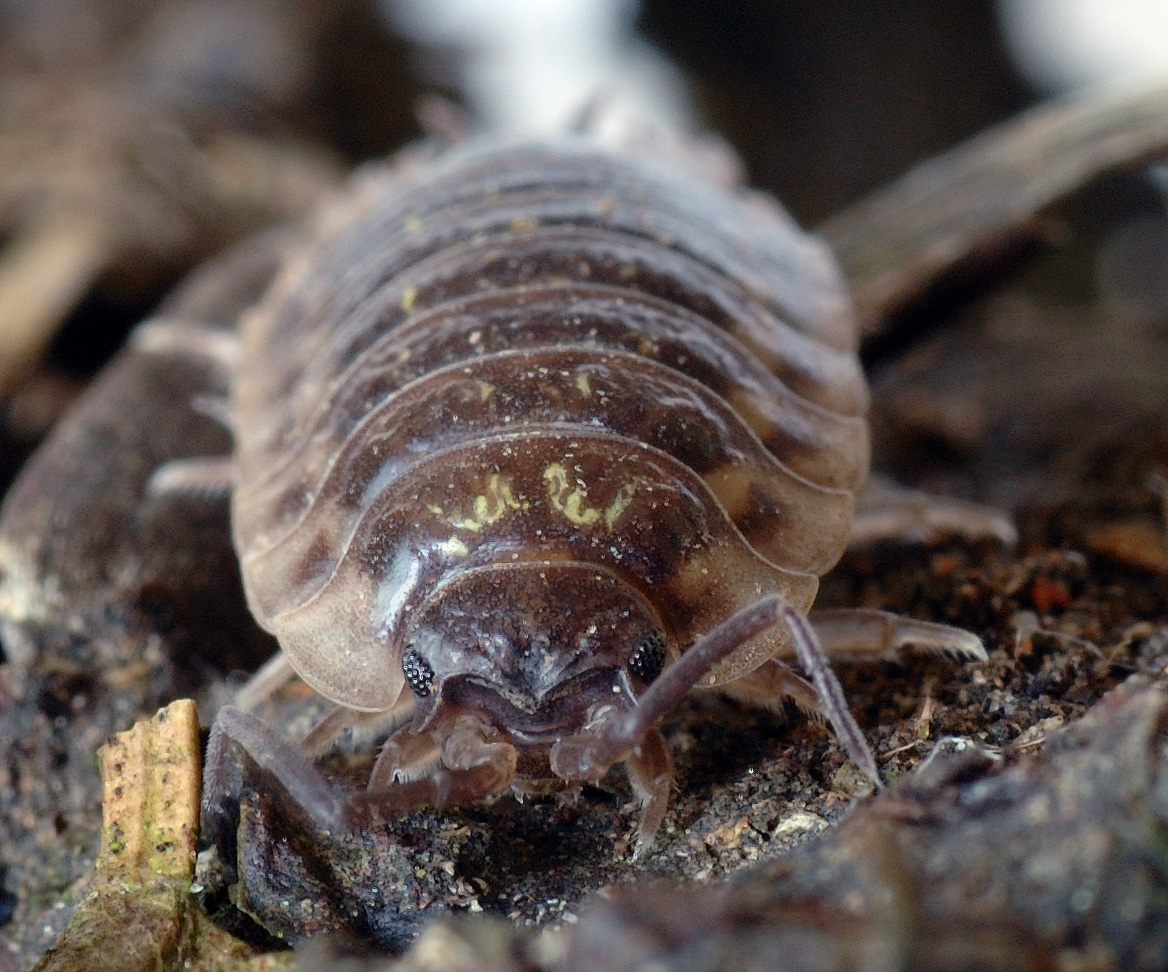 This image shows a 0.4 inch (10 mm) large male Common woodlouse (Oniscus asellus).